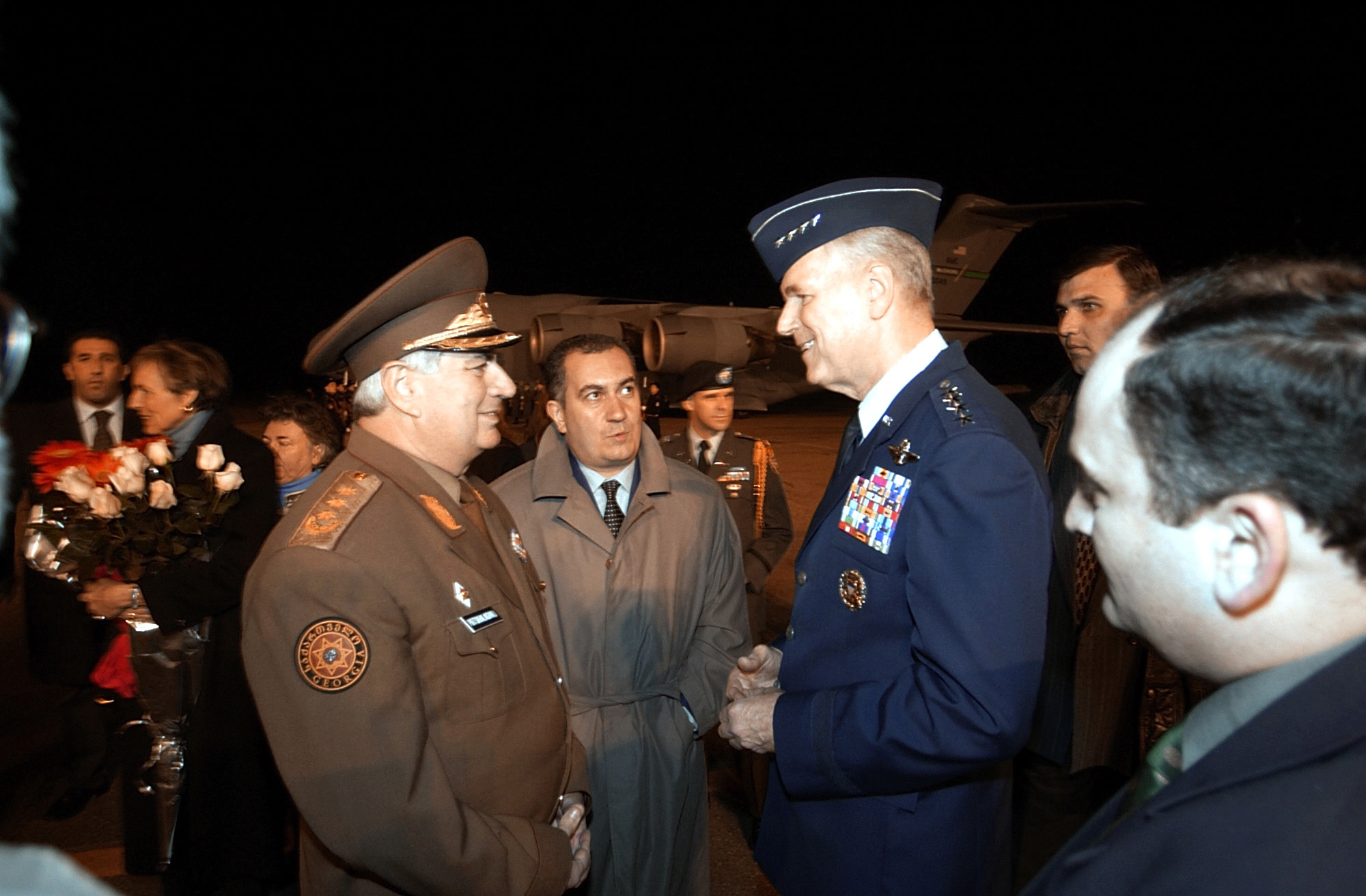 General notes: Item from Record Group 330: Records of the Office of the Secretary of Defense, 1921 - 2008